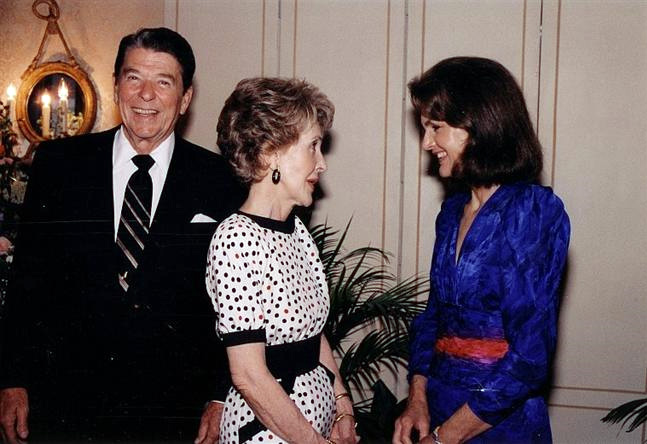 Jacqueline Kennedy Onassis with Ronald and Nancy Reagan at fundraiser for Kennedy Presidential Library.